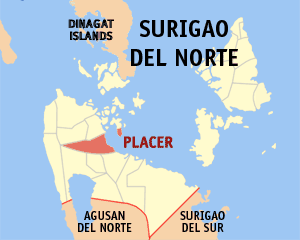 Map of the Surigao del Norte showing the location of Placer